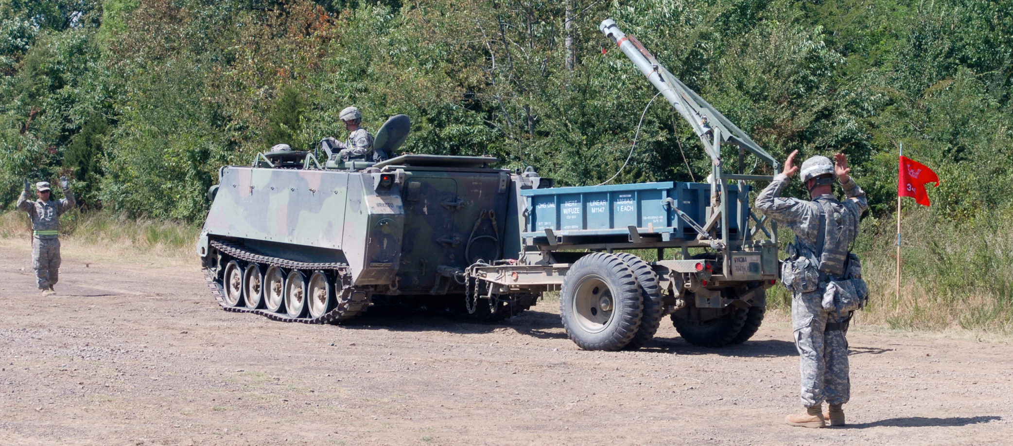 Soldiers of the 316th Mobility Augmentation Company of Chattanooga, Tenn., guide a track vehicle onto the range to launch the M58 mine-clearing line charge as part of River Assault 2011 at Fort Chaffee, Ark., July 19, 2011. For the exercise inert training demolition charges replaced the usual 1,750 pounds of plastic explosives.